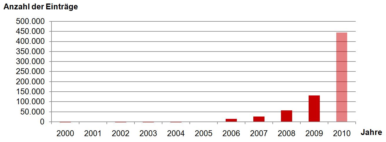 Querys via Google for the word Crowdfunding